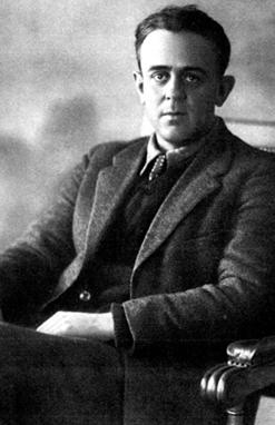 John Reed, the American Communist